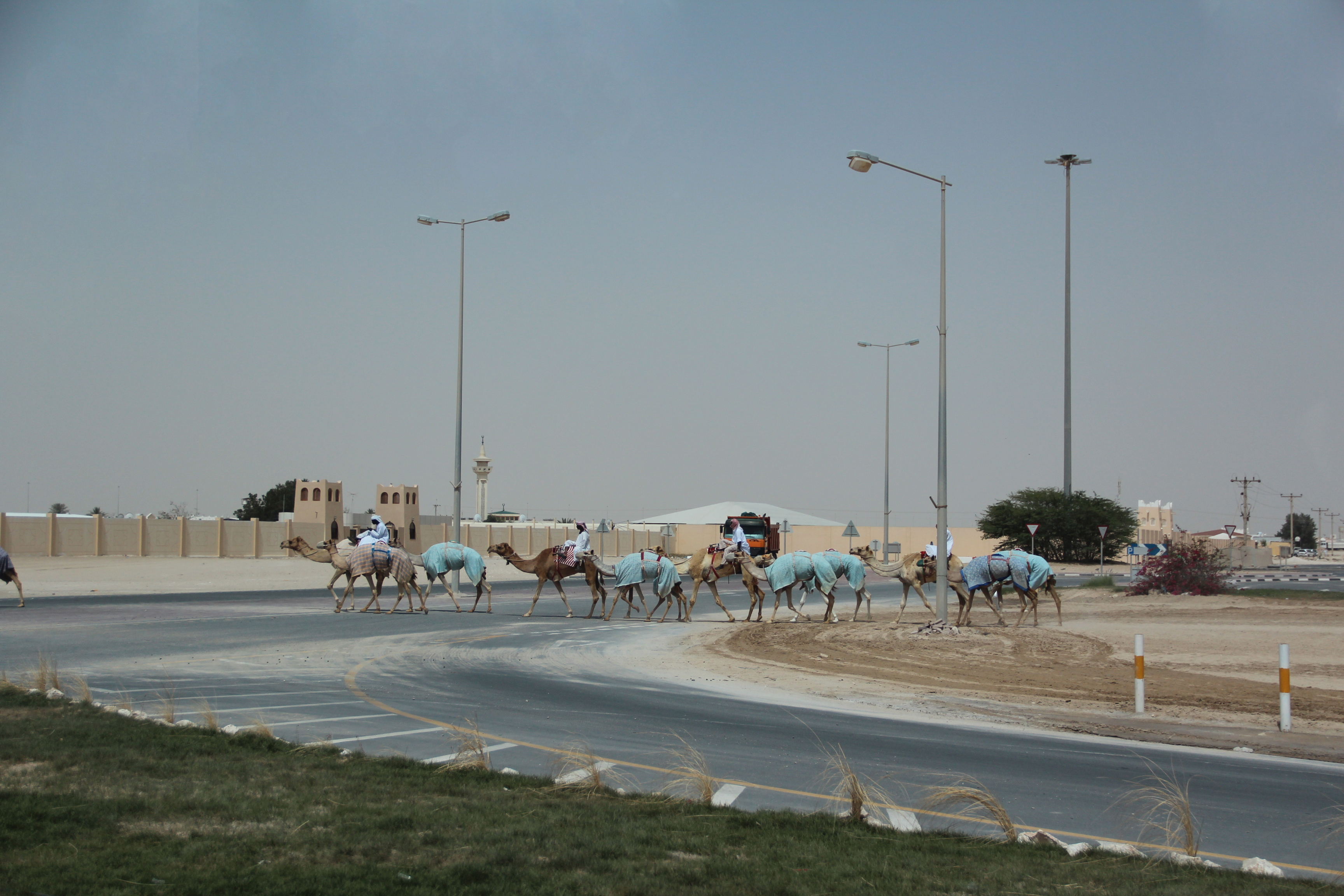 Camels crossing the road in Al-Shahaniya, central Qatar, near the camel racetrack.